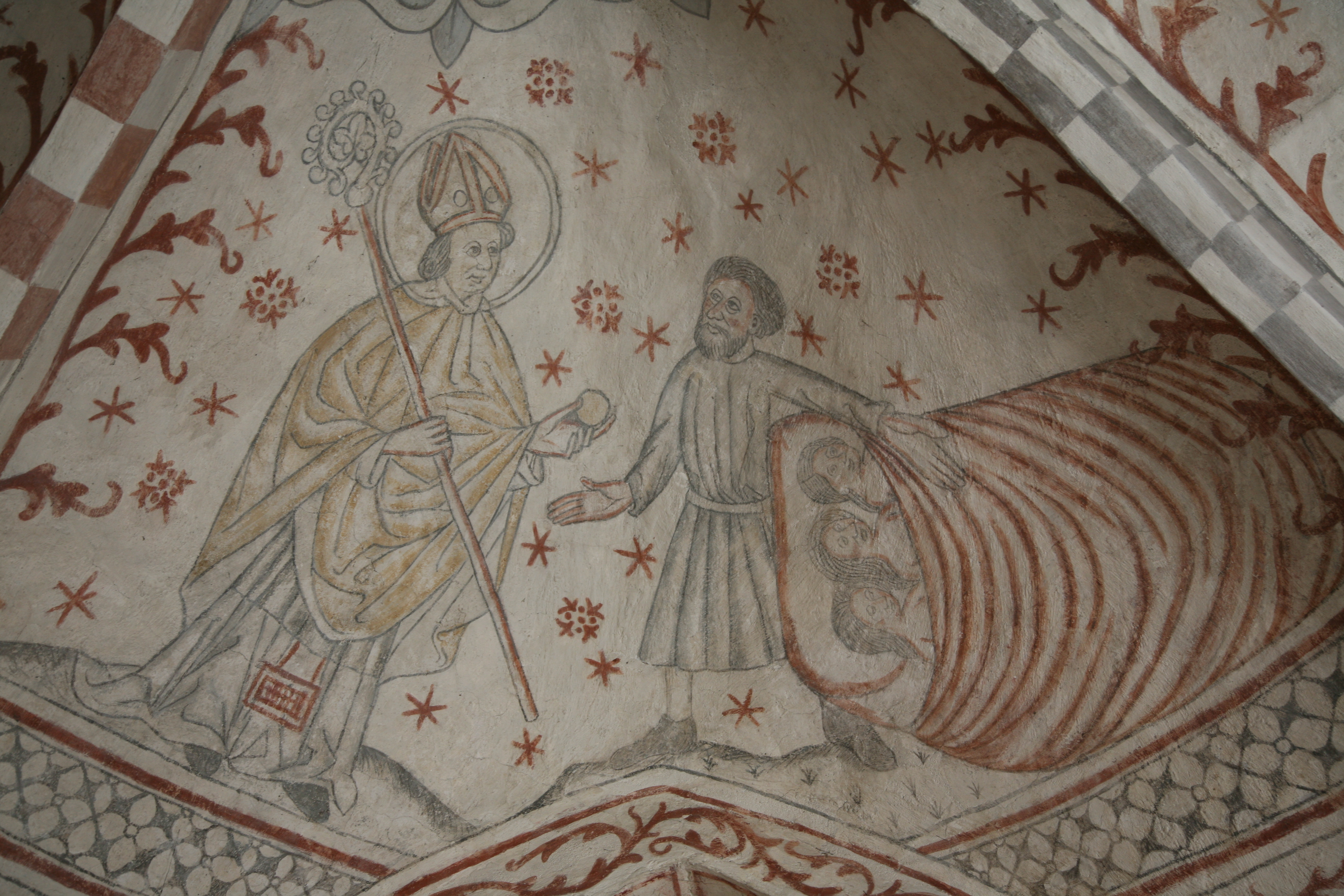 Fresco in Vigersted church in Ringsted kommune, Denmark